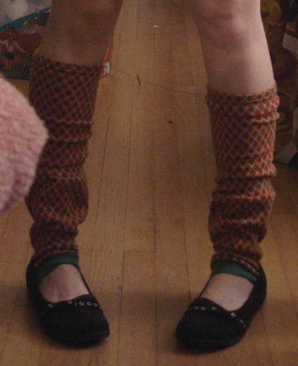 leg warmers photo from flickr by iluvrhinestones